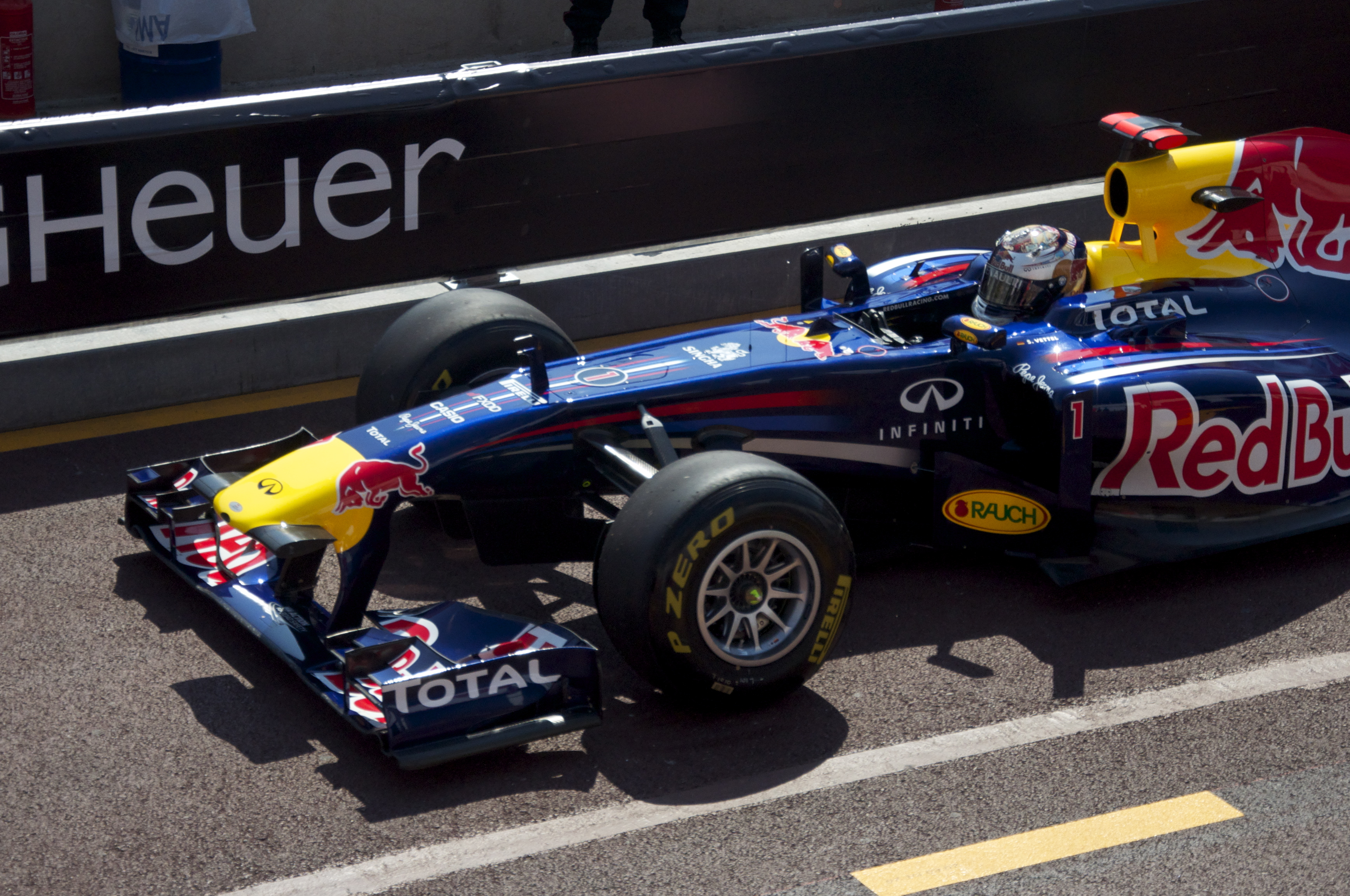 Monaco Grand Prix 2011